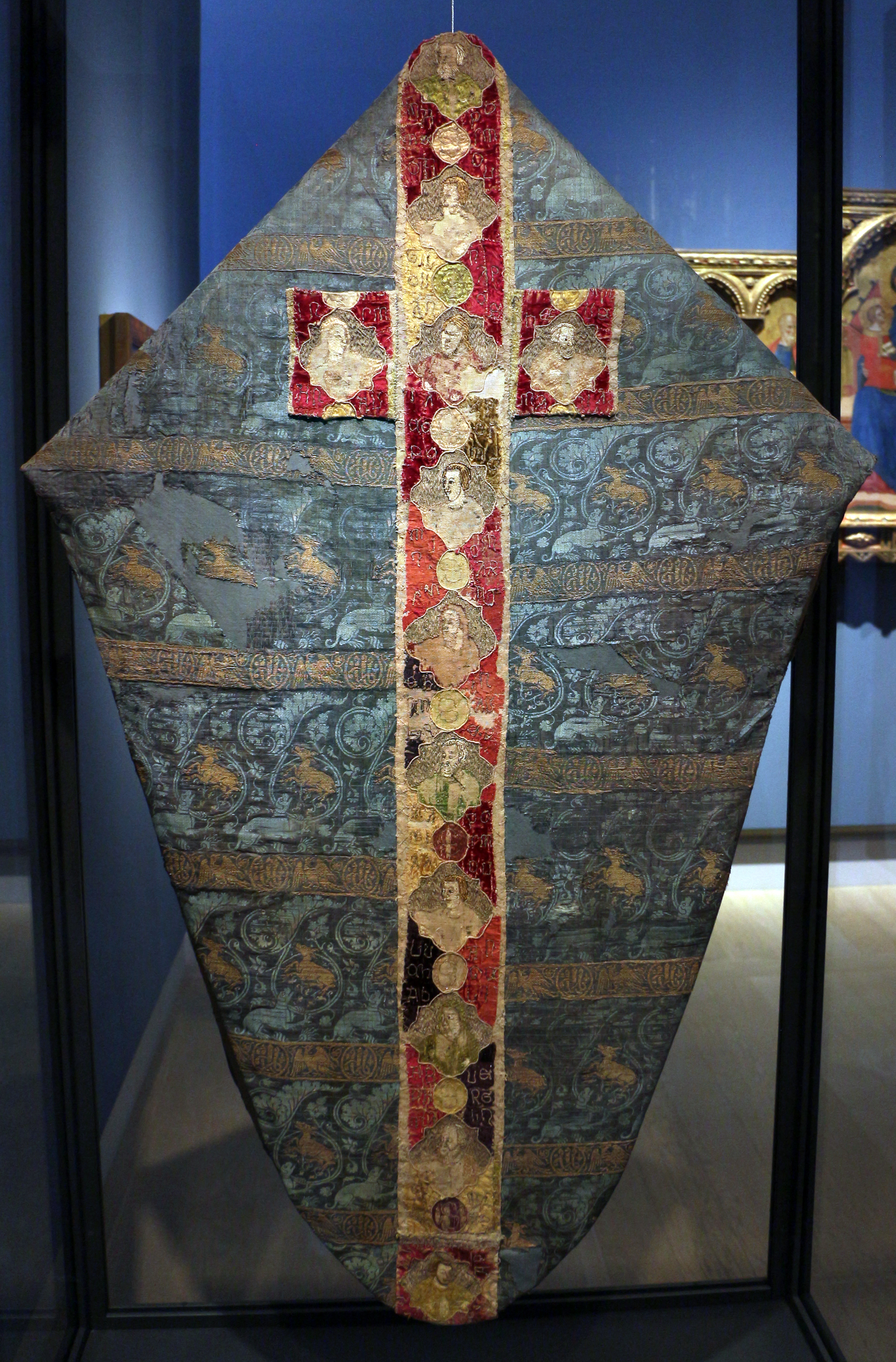 Restituzioni 2016